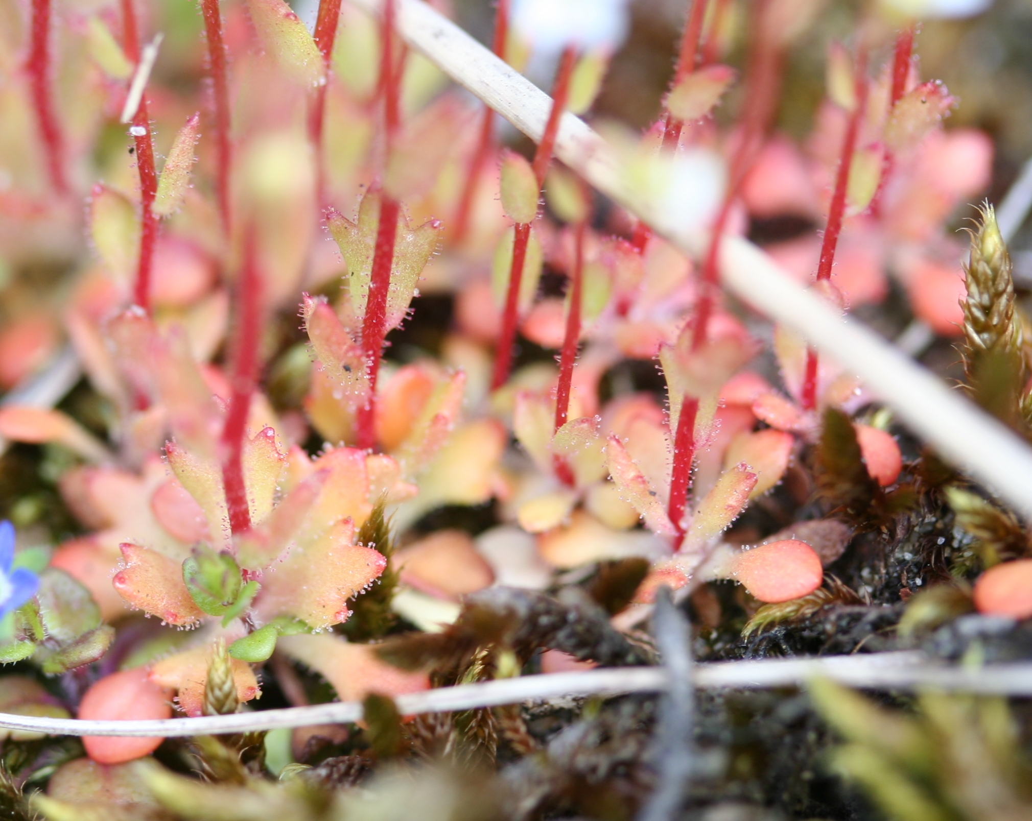 Saxifraga tridactylites 29 april 2006 IJmuiden, the Netherlands